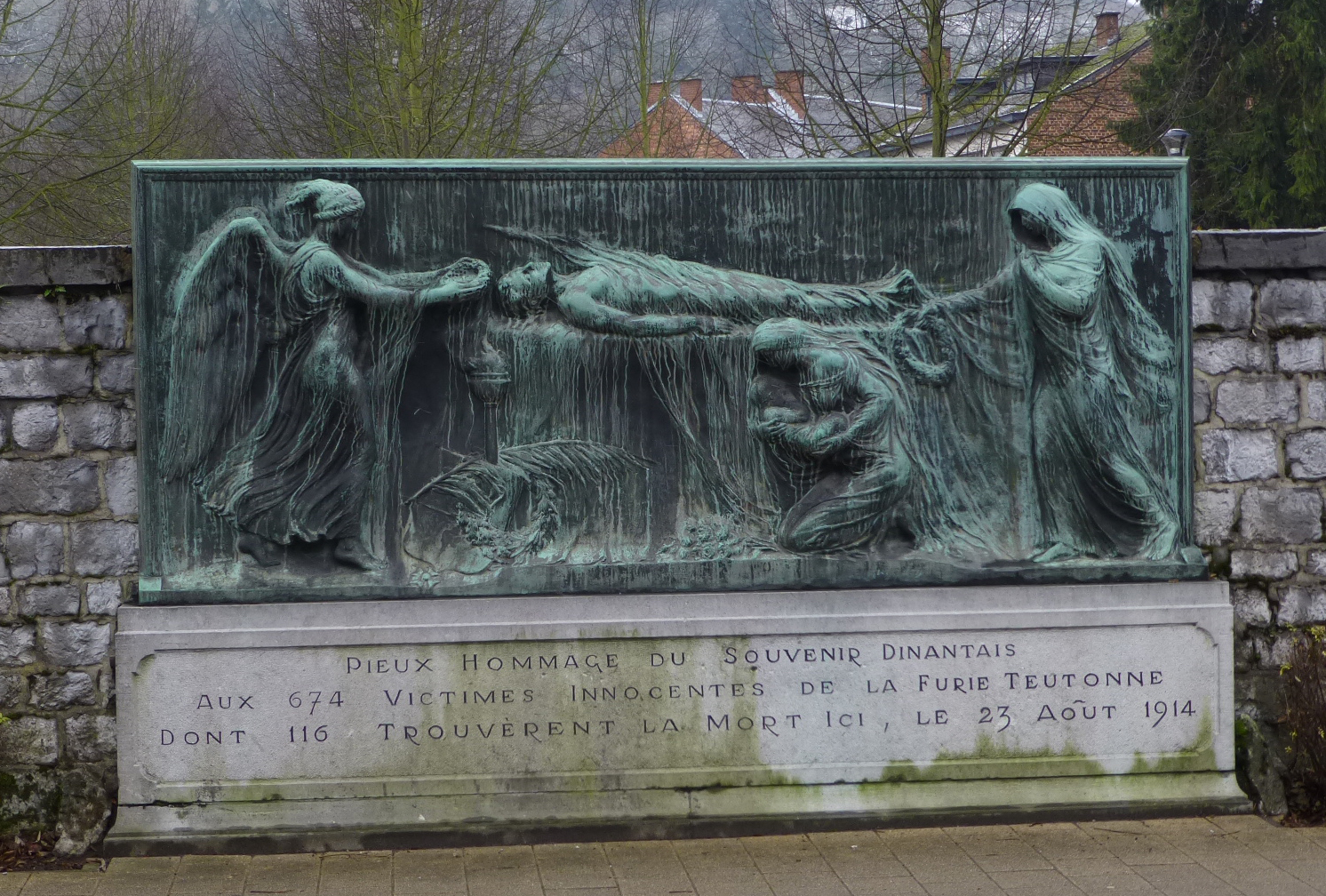 Bronze monument in memory of the 674 civil victims in Dinant, on August 23, 1914, a German army war crime.